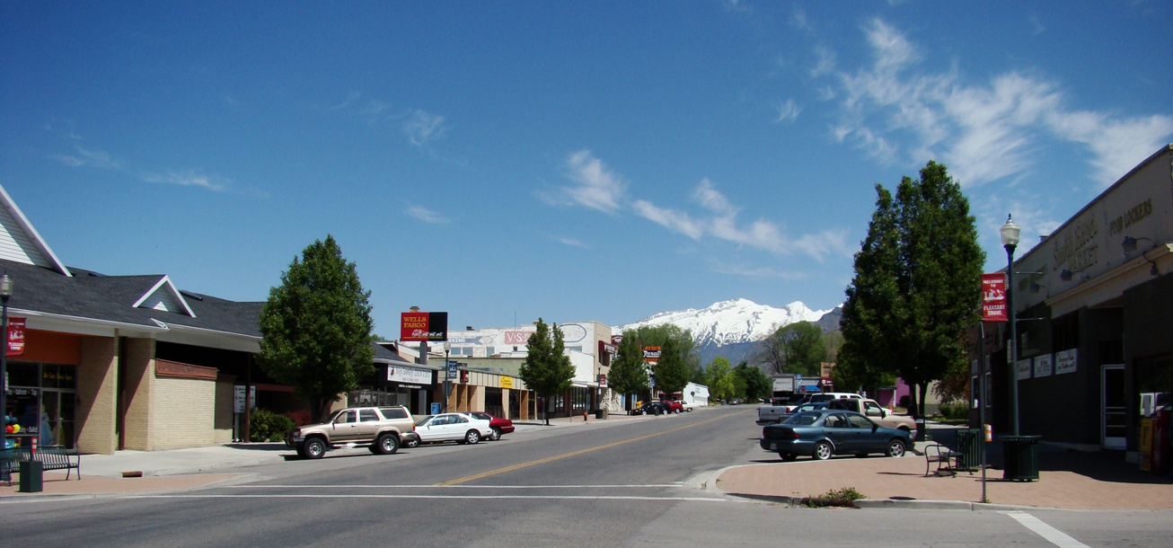 Looking north down Main Street in Pleasant Grove, Utah, USA.